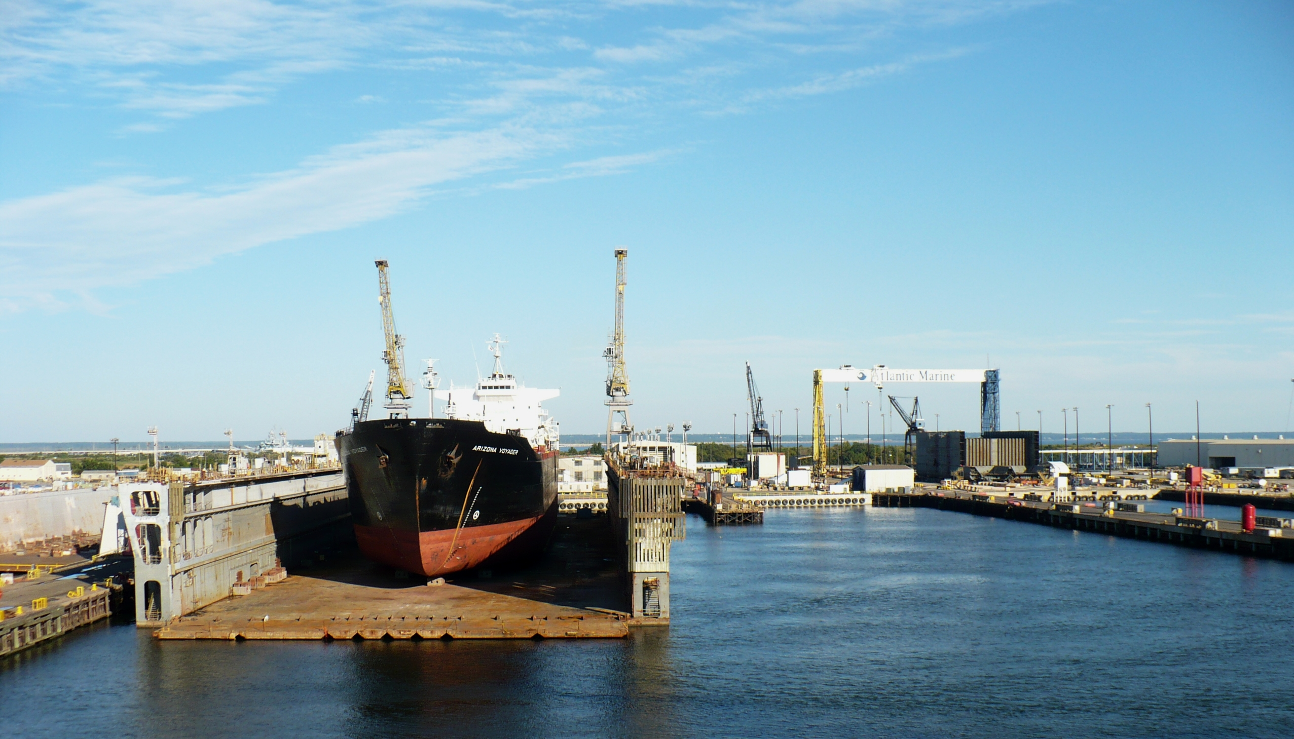 View of a portion of Atlantic Marine's shipyards along the Mobile River in Mobile, Alabama. Taken from the MS Holiday.